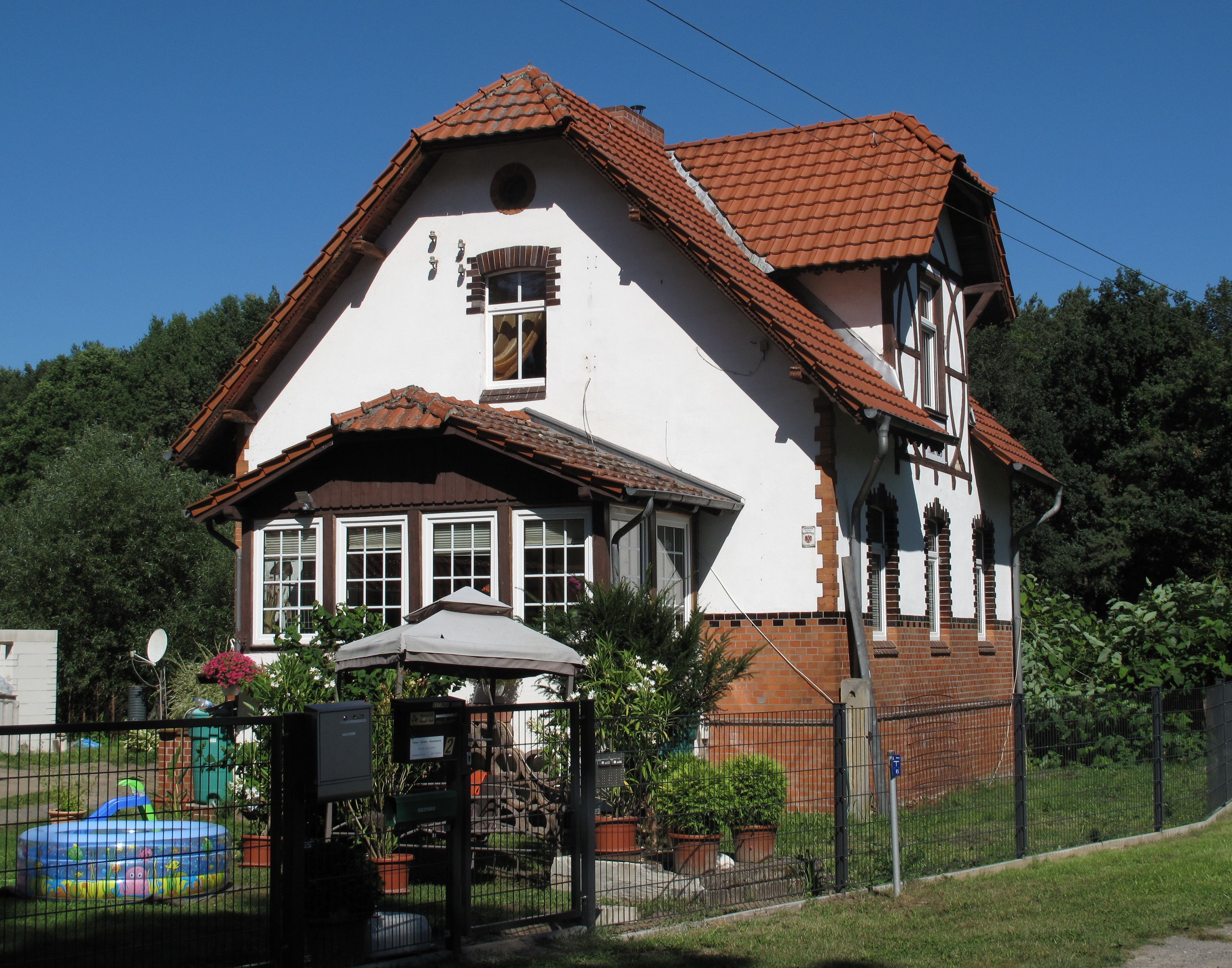 Listed „Villa Agnes“ in Kummersdorf. The village Kummersdorf is a part of the town Storkow, District Oder-Spree, Brandenburg, Germany.